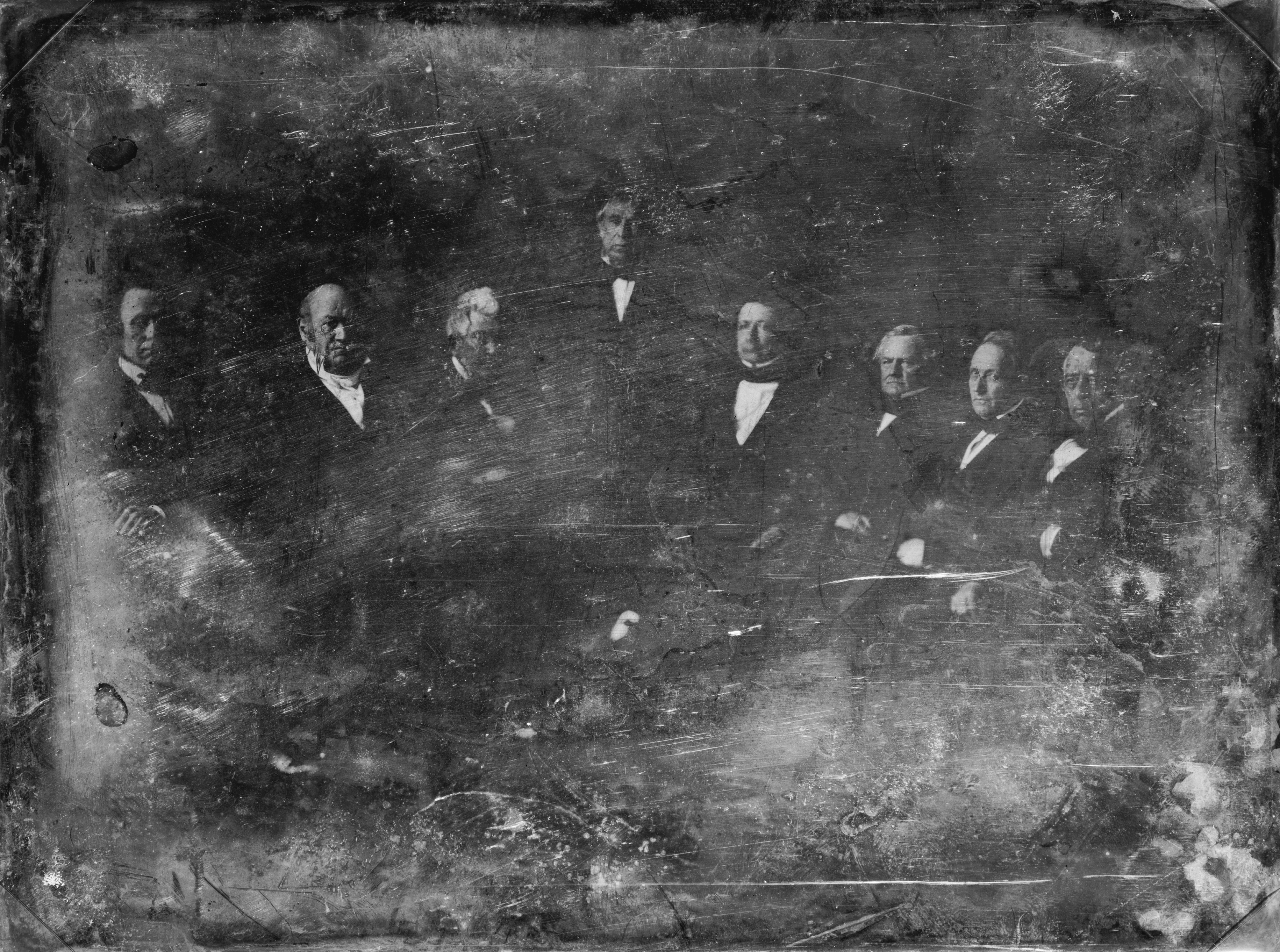 President Zachary Taylor's cabinet, daguerreotype by Mathew Brady, from the Library of Congress dated 1849.